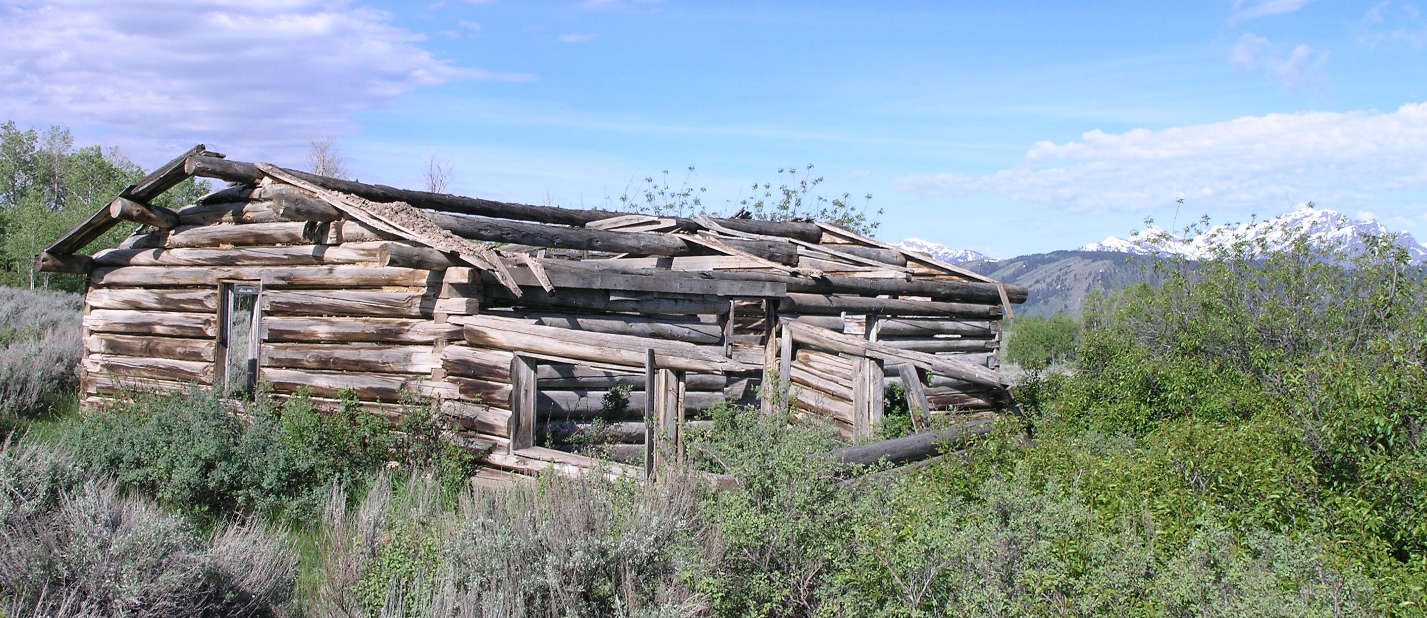 Photo in or around Grand Teton National Park